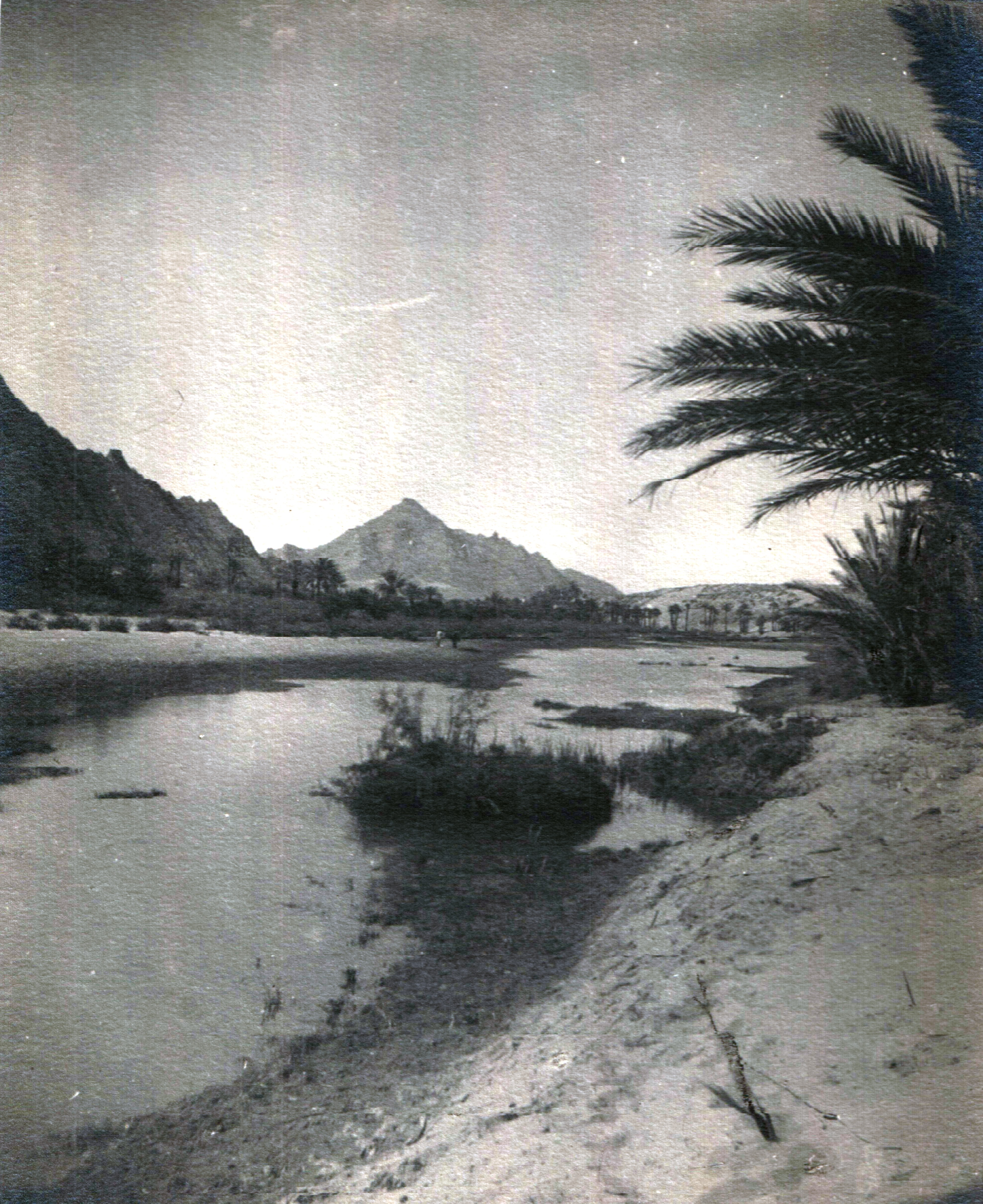 Views and photos of the Sahara desert and other regions in Africa. Oued Zouzfana river, Figuig, Morocco.